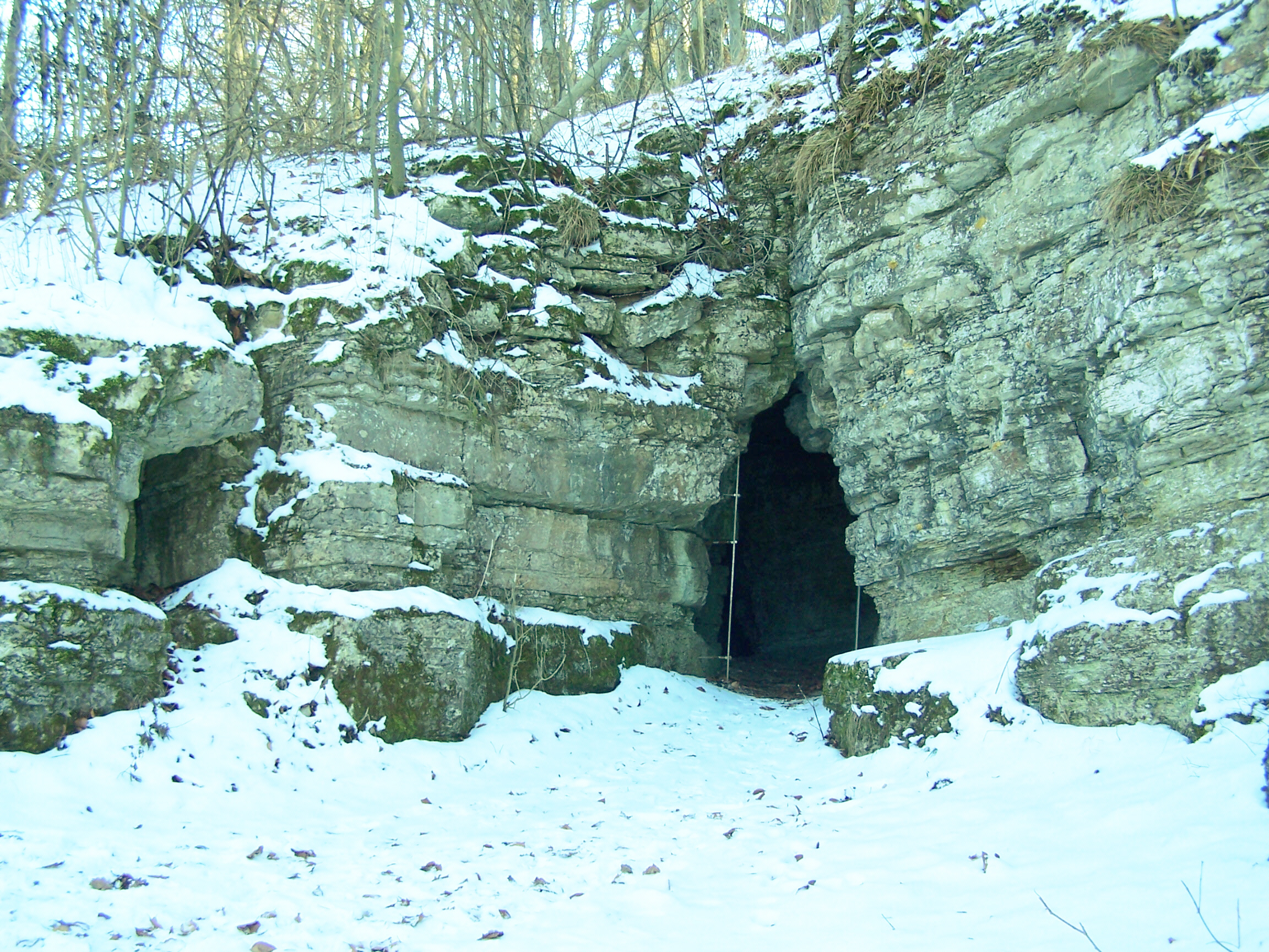 The natural cave Venushöhle at the Hörselberg.